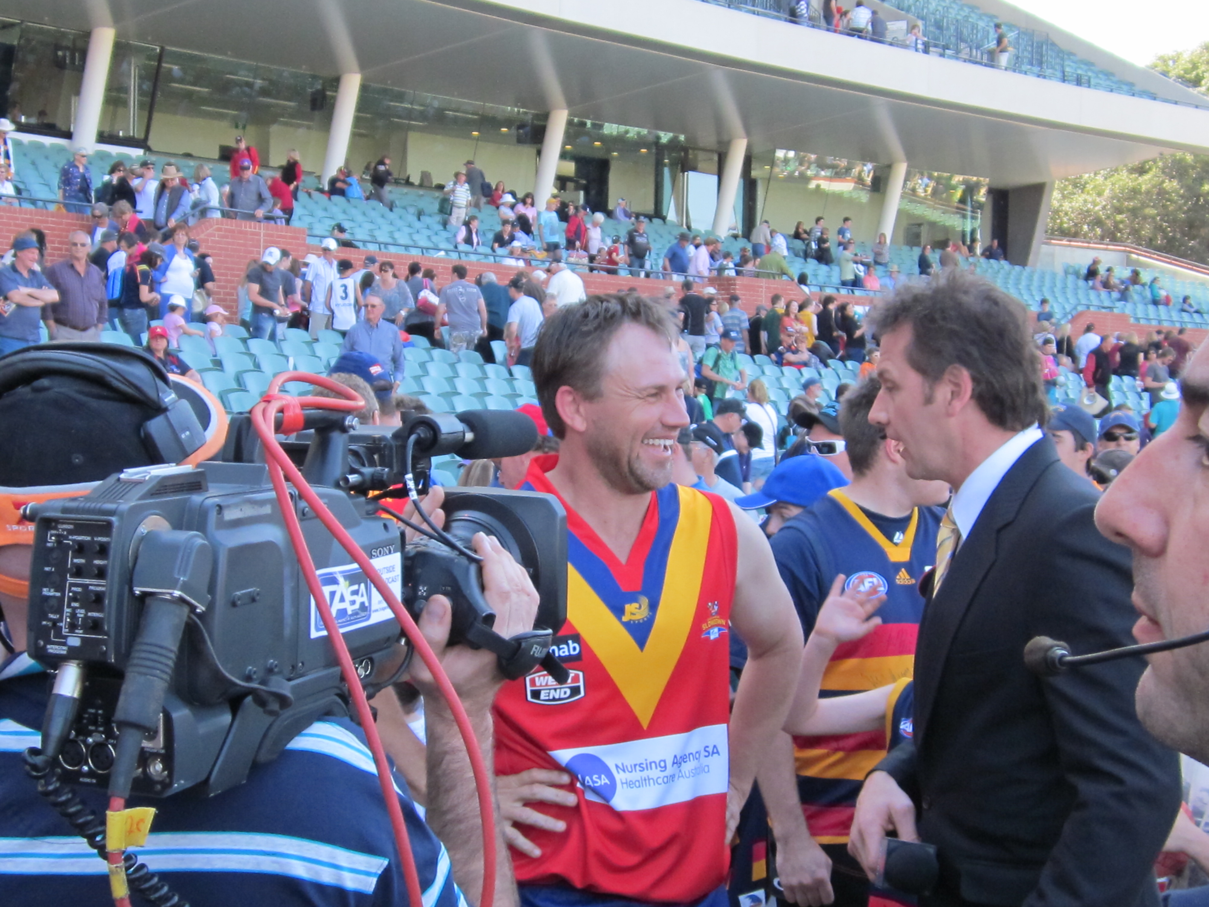 Tony Modra being interviewed after the 2011 State of Origin Slowdown at the Adelaide Oval on 3 October. South Australia 17.10 (112) d Victoria 17.9 (111)